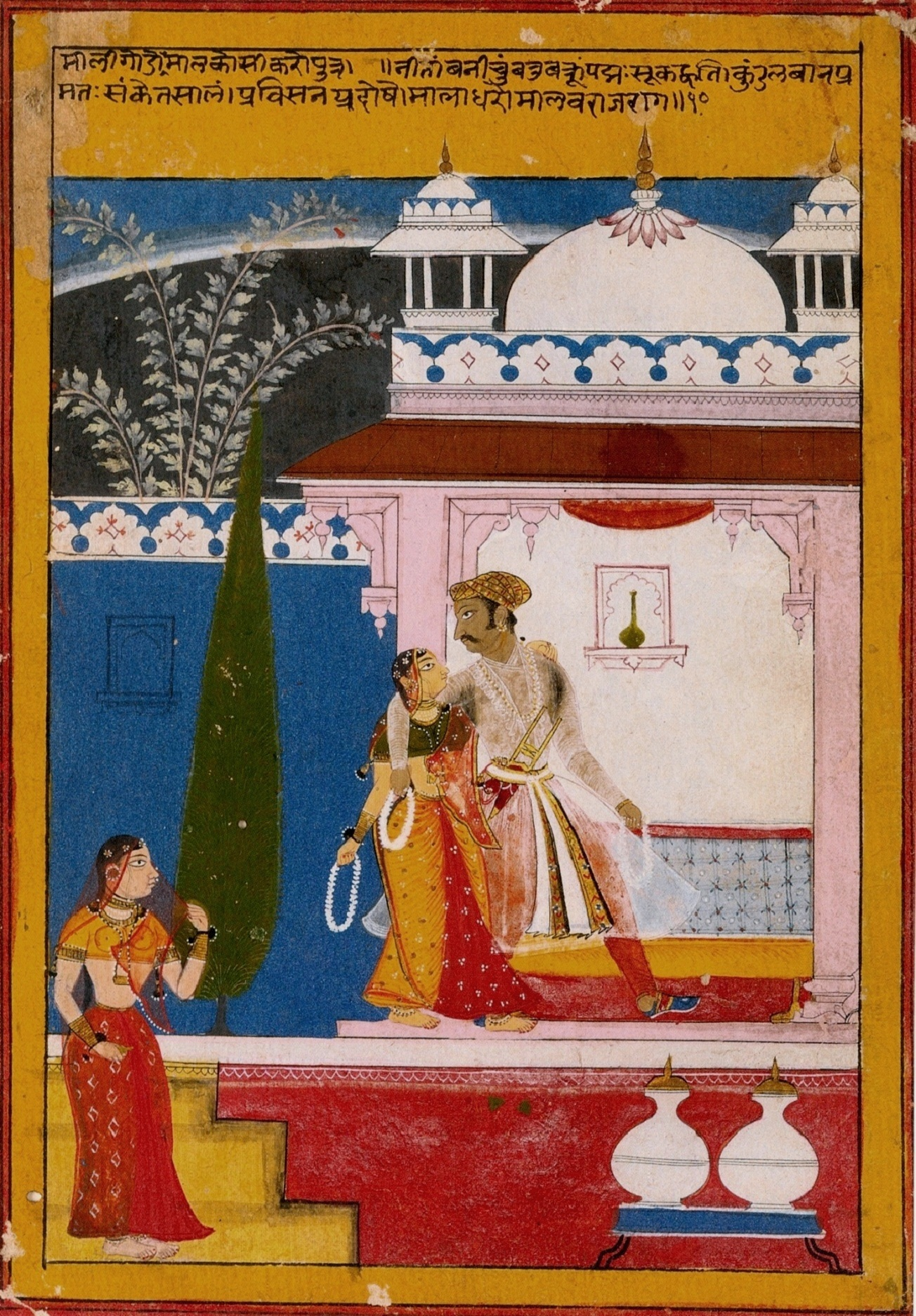 Sahibdin. Malavi Ragini. Folio from Ragamala series. Udaipur, Mewar, Rajasthan, dated 1628. Private Collection, New York.